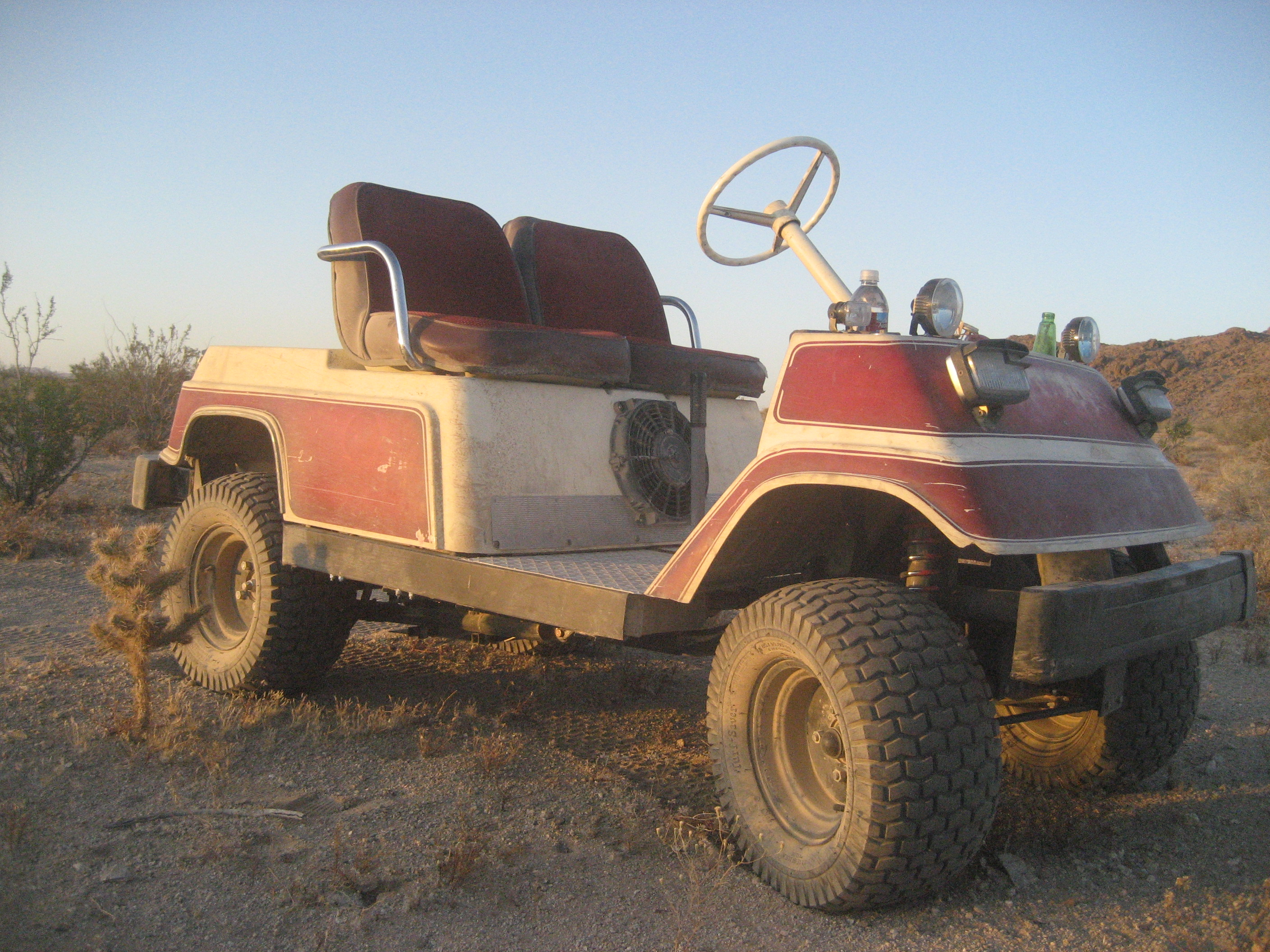 Off road gas golf cart.